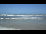 I took photo with Canon camera at Port Aransas, TX.